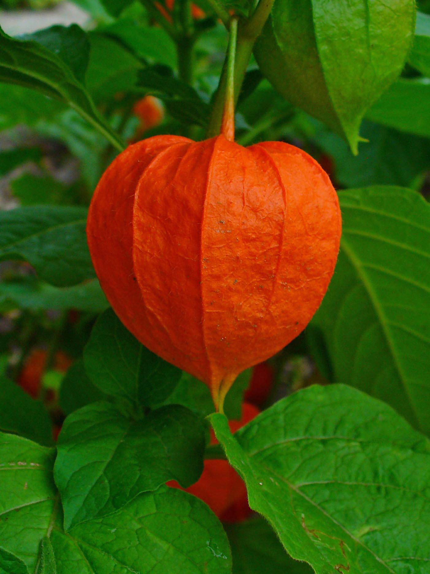 Physalis alkekengi, Solanaceae, Bladder Cherry, Chinese Lantern, Japanese Lantern, Winter Cherry, fruit; Botanical Garden KIT, Karlsruhe, Germany.